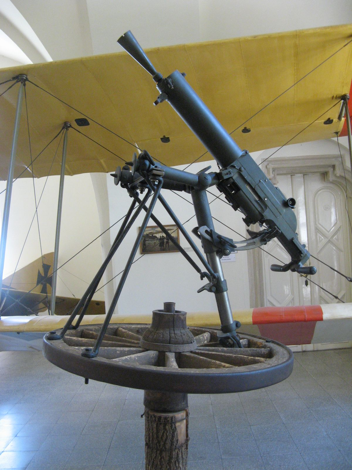 Machine gun Maschinengewehr 07/12 Schwarzlose mounted on a wheel, used for AA-Fire by the Austro-Hungarian army in world war one